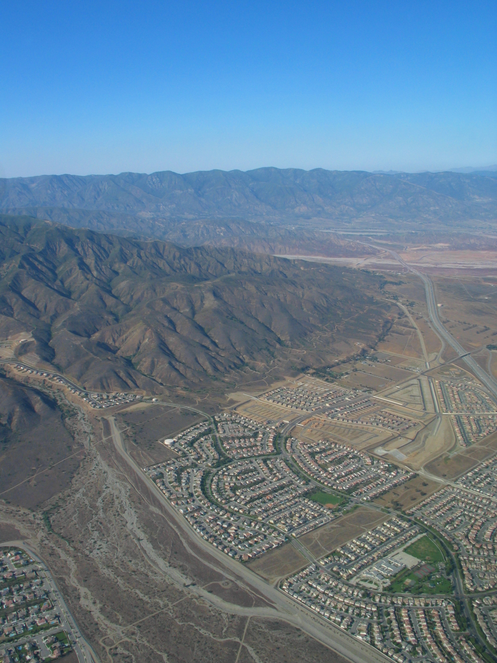 The Inland Empire of California, from the air, with the 15 running north. This shows the housing sprawl in progress. Location: approximately 34.147897,-117.499638